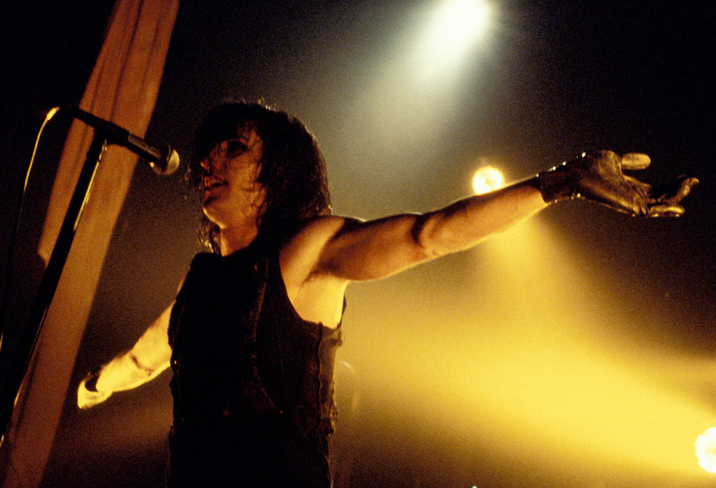 Trent Reznor of Nine Inch Nails during a live performance on the Self-Destruct tour, circa 1994–1995